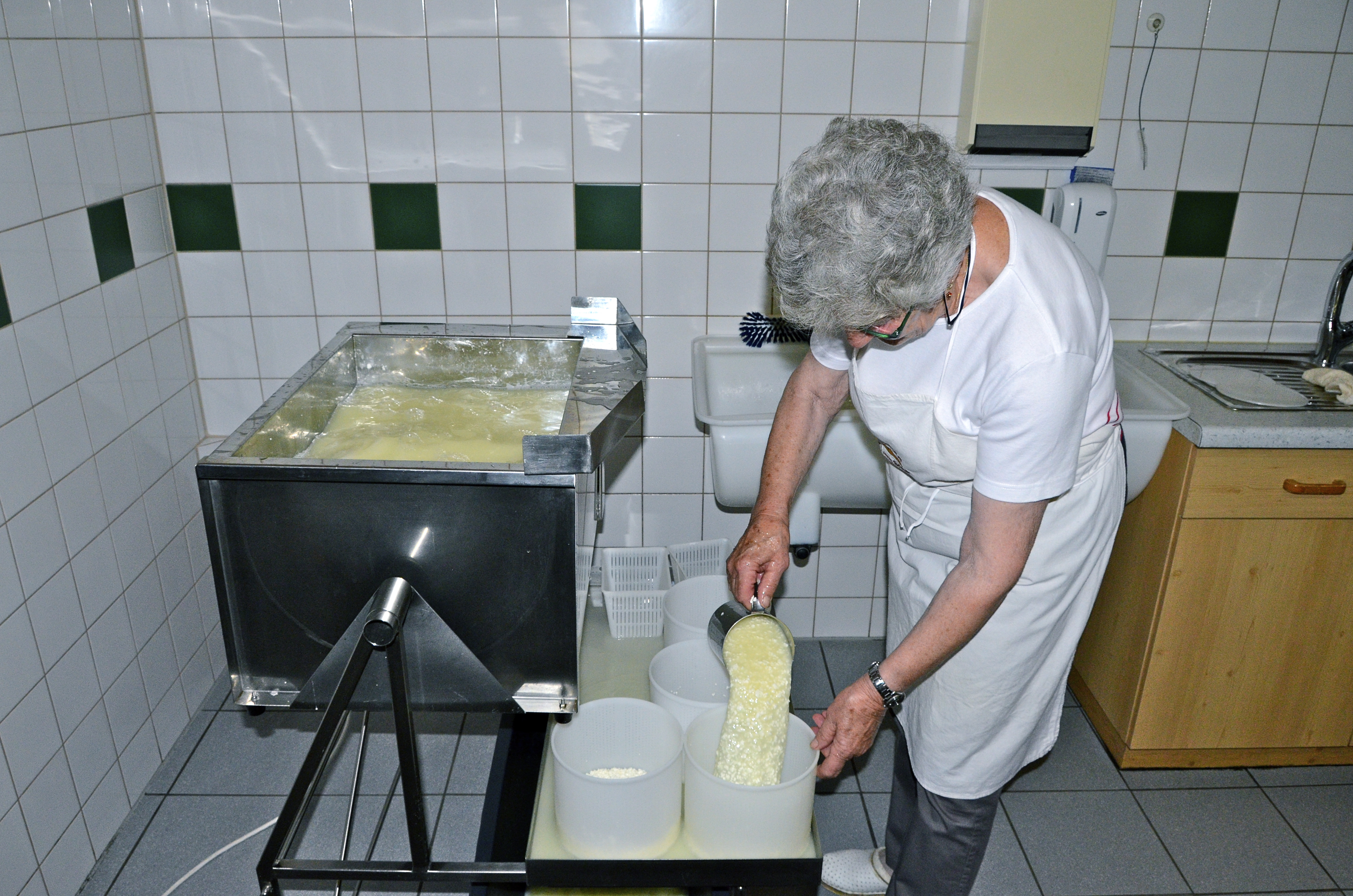 Separation of the whey from sheep milk`s curds on Joehrerhof at Tscheltsch #4, Liesing, municipality Lesachtal, district Hermagor, Carinthia / Austria / EU